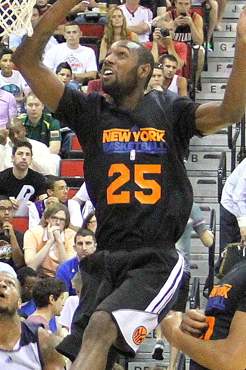 C.J. Leslie playing with the New York Knicks in the 2013 Summer League